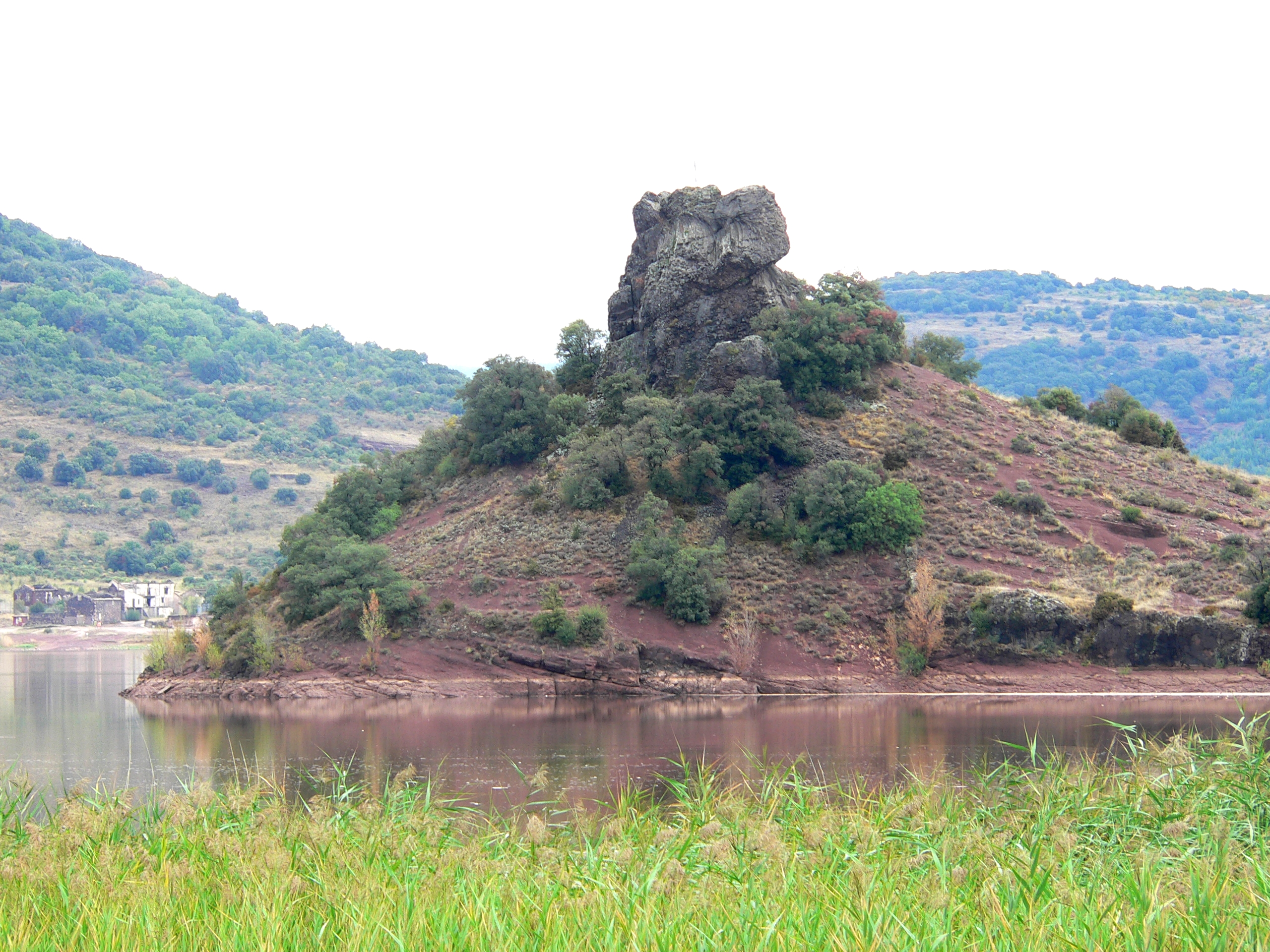 Columnar-jointed Pleistocene basalt above tilted layers of Permian sandstone at Lac du Salagou in Hérault, France.